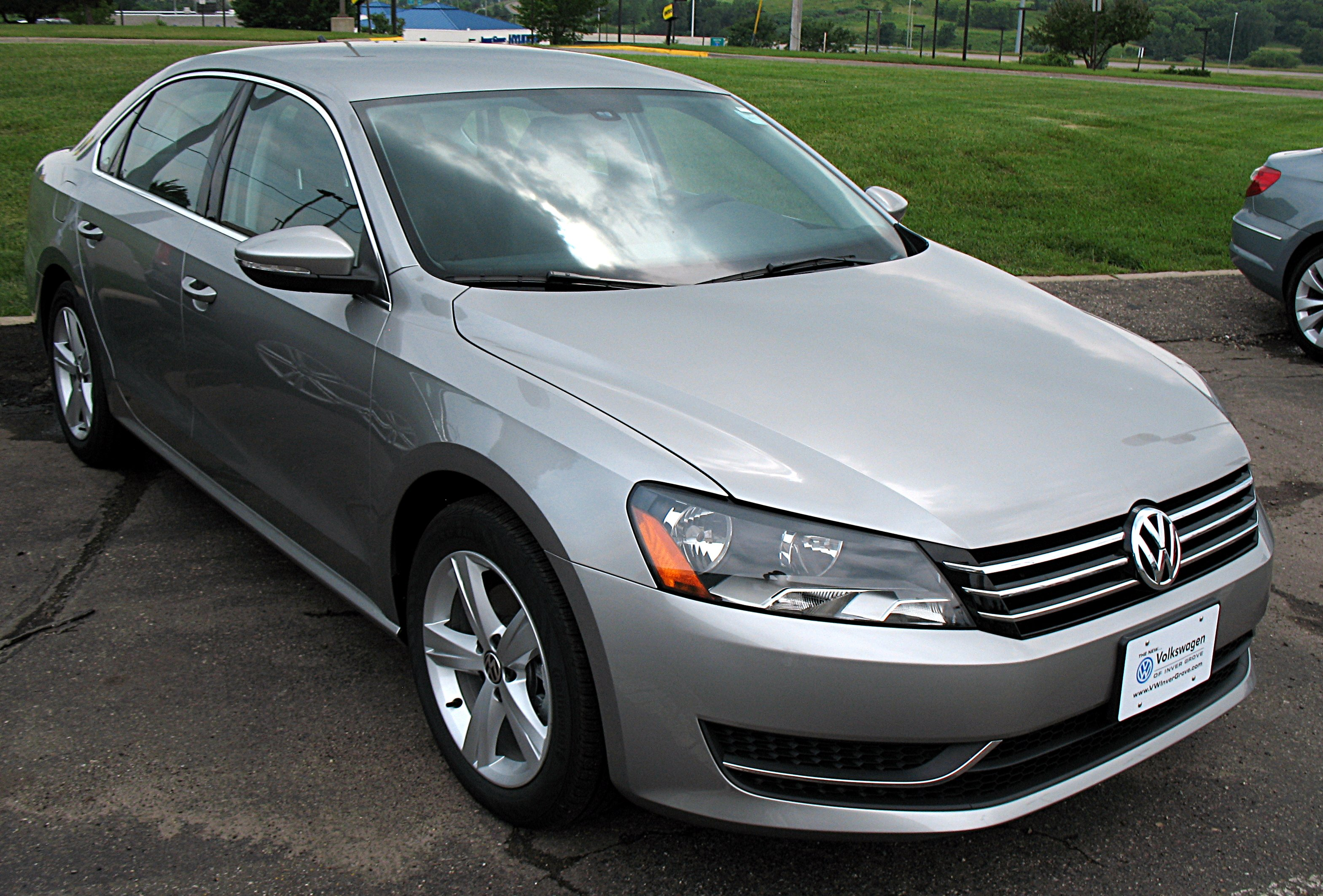 Volkswagen Passat SE 2.5 (NMS)